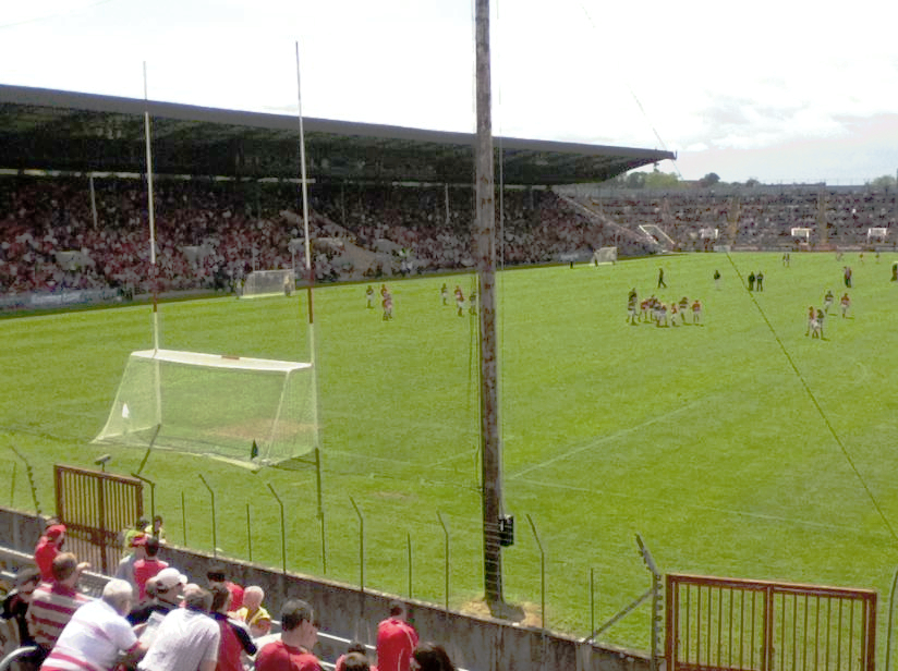 Cork vs Kerry Munster Semi Final 2012